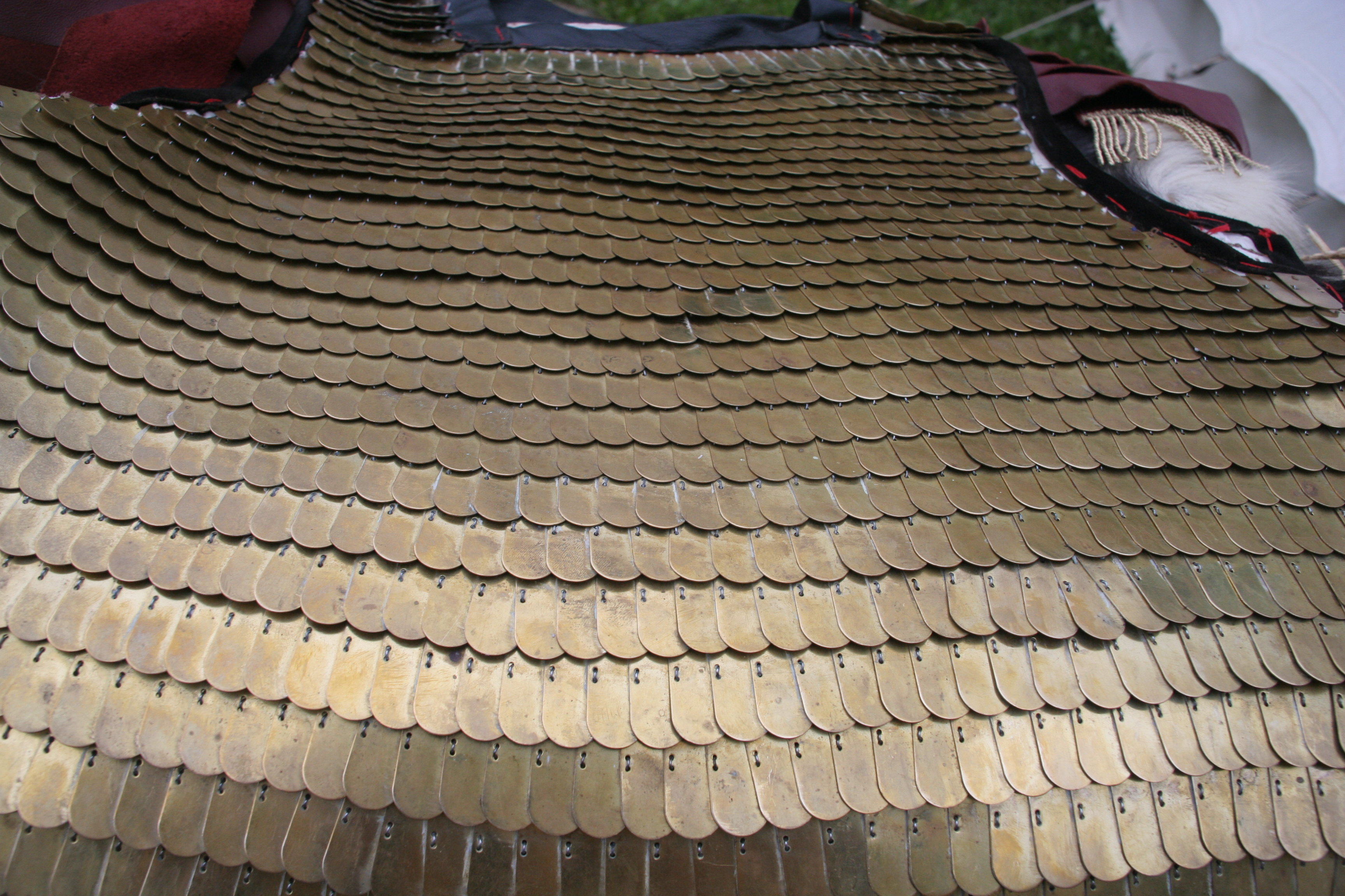 Scale mail, 175 a.C. de: Schuppenpanzer eines römischen Offiziers um 175 n.Chr. Photographed by myself during a show of Legio XV from Pram, Austria